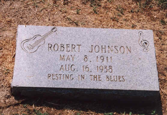 The tombstone of Robert Johnson